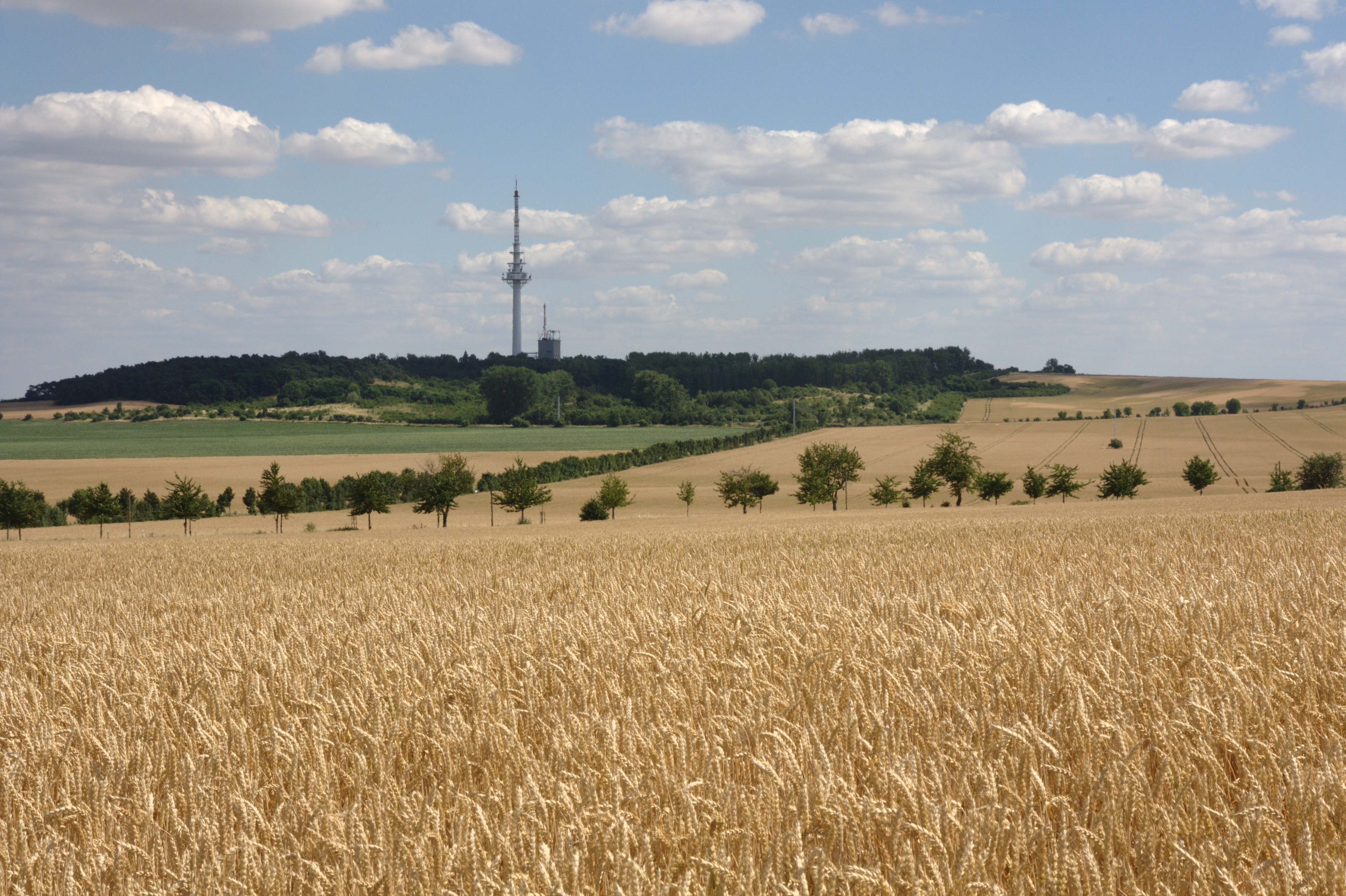 Frohser Berg between Magdeburg and Schoenebeck